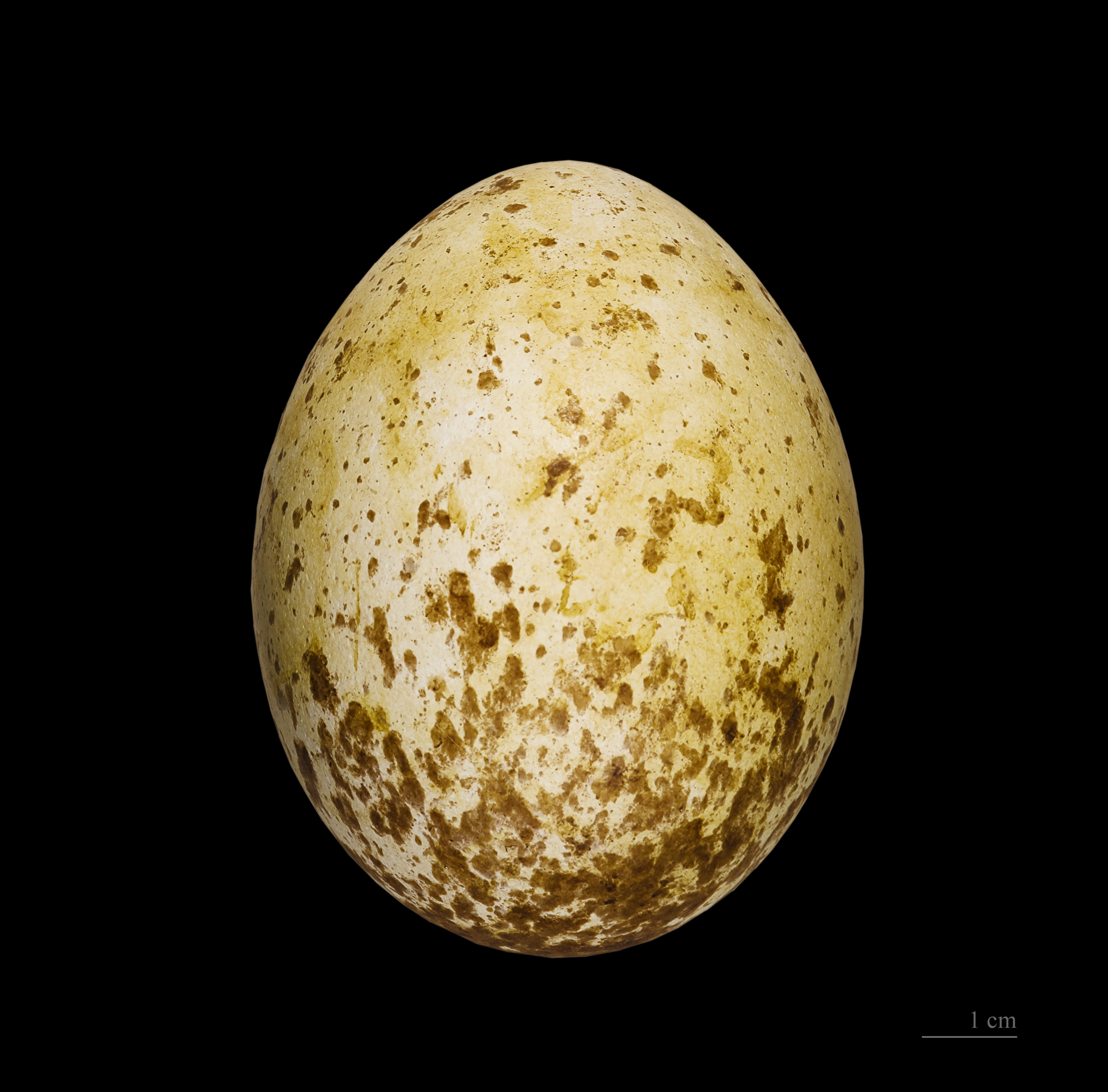 Egg of Wedge-tailed Eagle. Collection of Jacques Perrin de Brichambaut. Locality: Queensland, Australia.